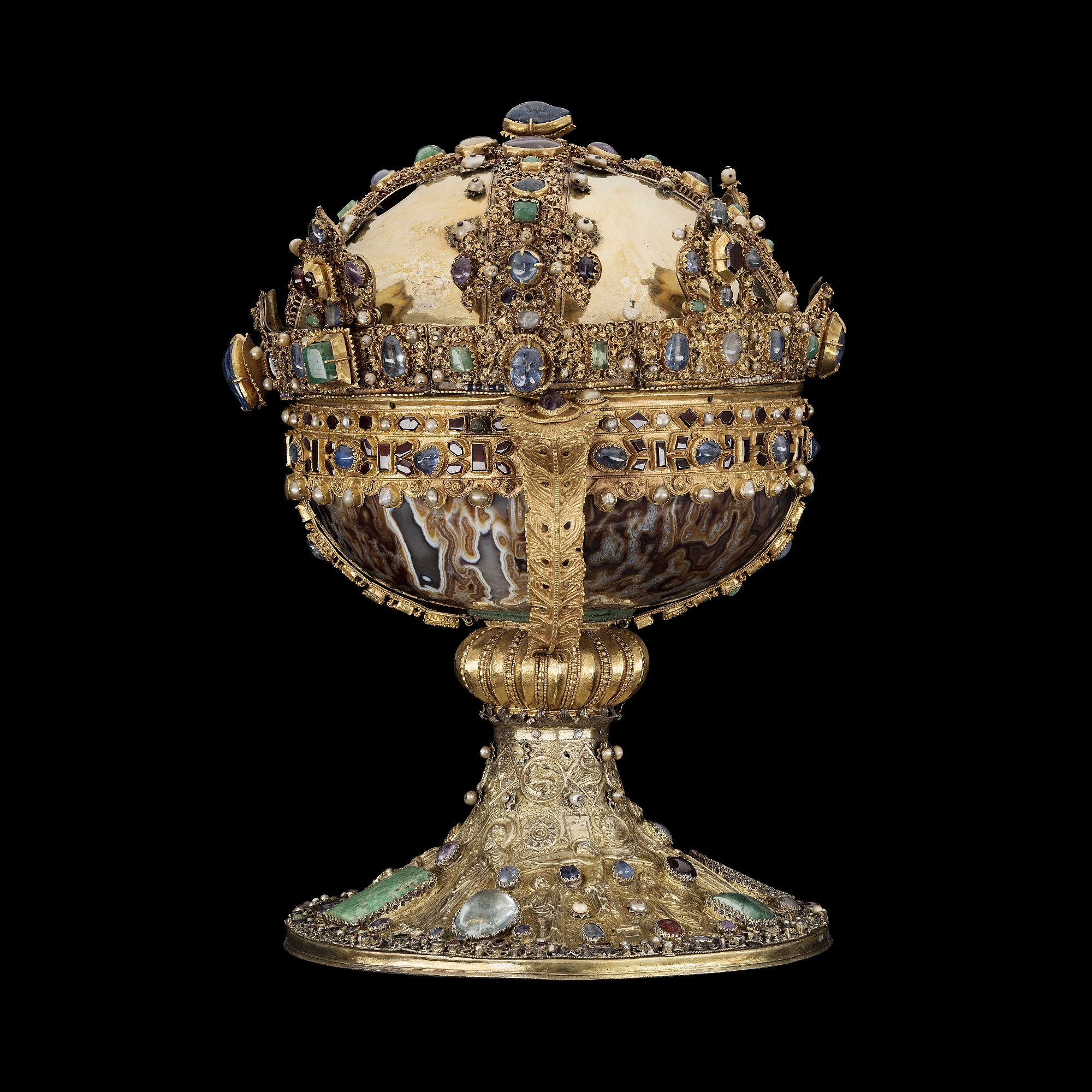 Reliquary of St. Elizabeth, agate, Gemstones